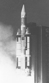 Titan IIIC IDCSP (DSCS-I) Satellite Mission From Pad 41